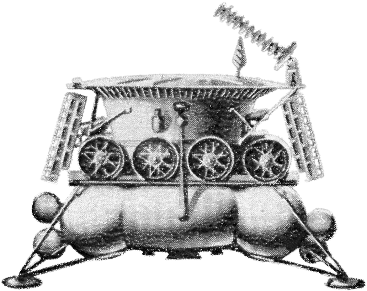 Soviet Luna 17 lunar lander with Lunokhod 1 rover payload.